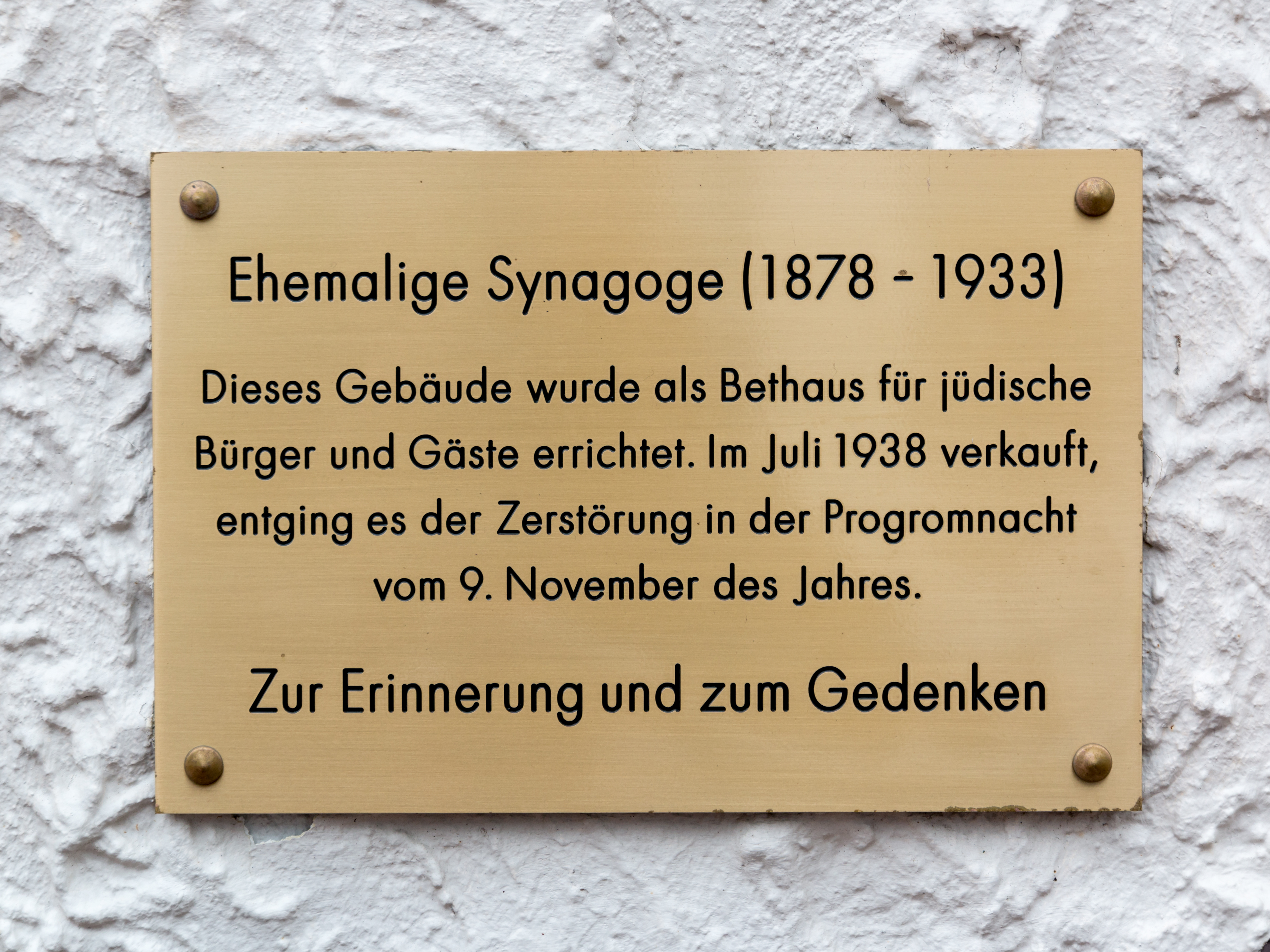 Restaurant “de Leckerbeck” (former Synagogue), Norderney, Lower Saxony, Germany